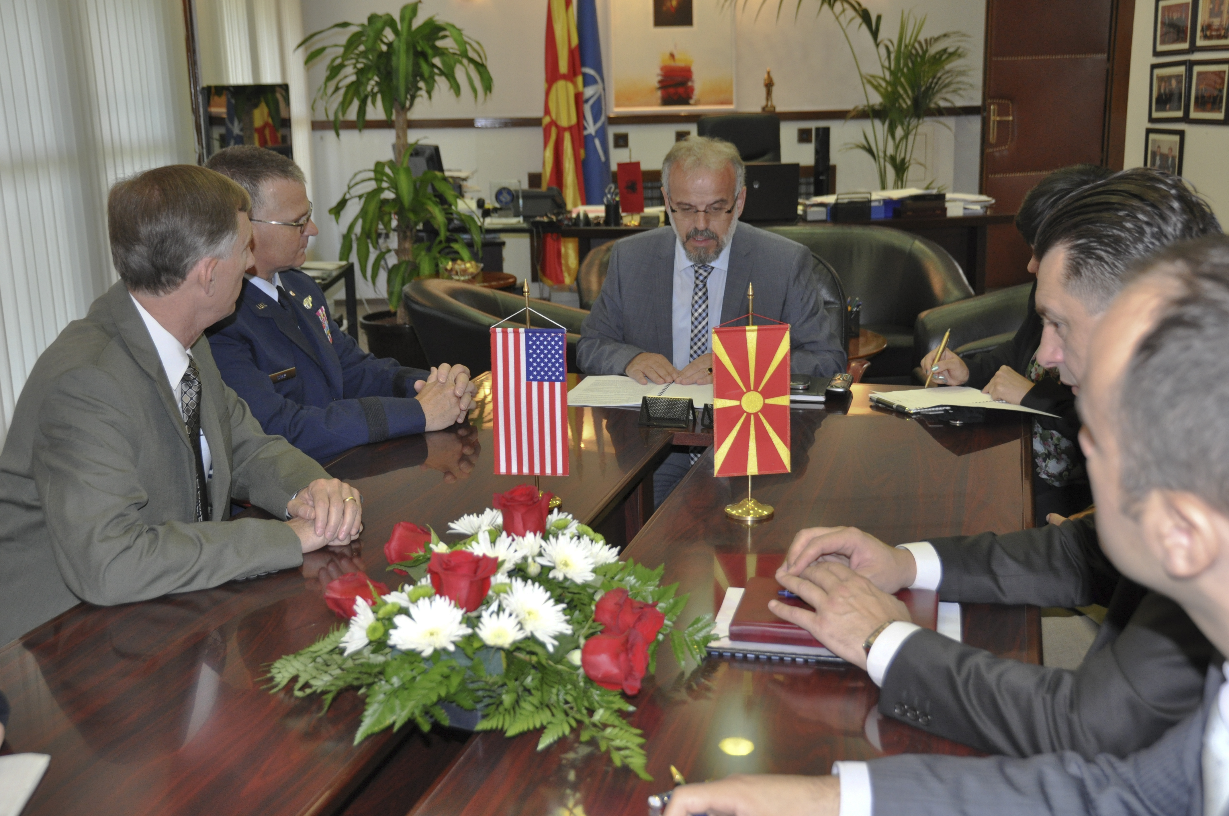 U.S. Air Force Maj. Gen. Steven Cray, the adjutant general of the Vermont National Guard, and U.S. Ambassador Paul Wholers meet with Talat Xhaferi, the Macedonian minister of defense, to discuss the possibility of engaging with Vermont and Senegal in tri-lateral events in Skopje, Macedonia, Sept. 12, 2013. Members of the Vermont National Guard traveled to Macedonia to meet with top Macedonian leaders to discuss the future of the State Partnership Program. (U.S. Air National Guard photo by Capt. Dyana Allen)